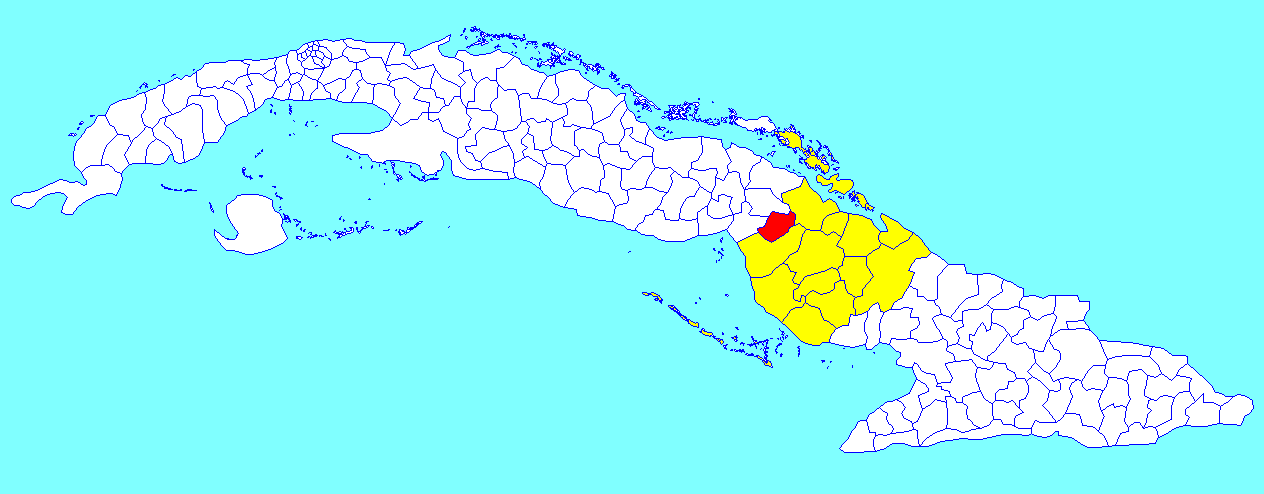 A map of the municipality of Carlos Manuel de Céspedes -or Céspedes- (shown in red) within the Province of Camagüey (yellow) and Cuba.